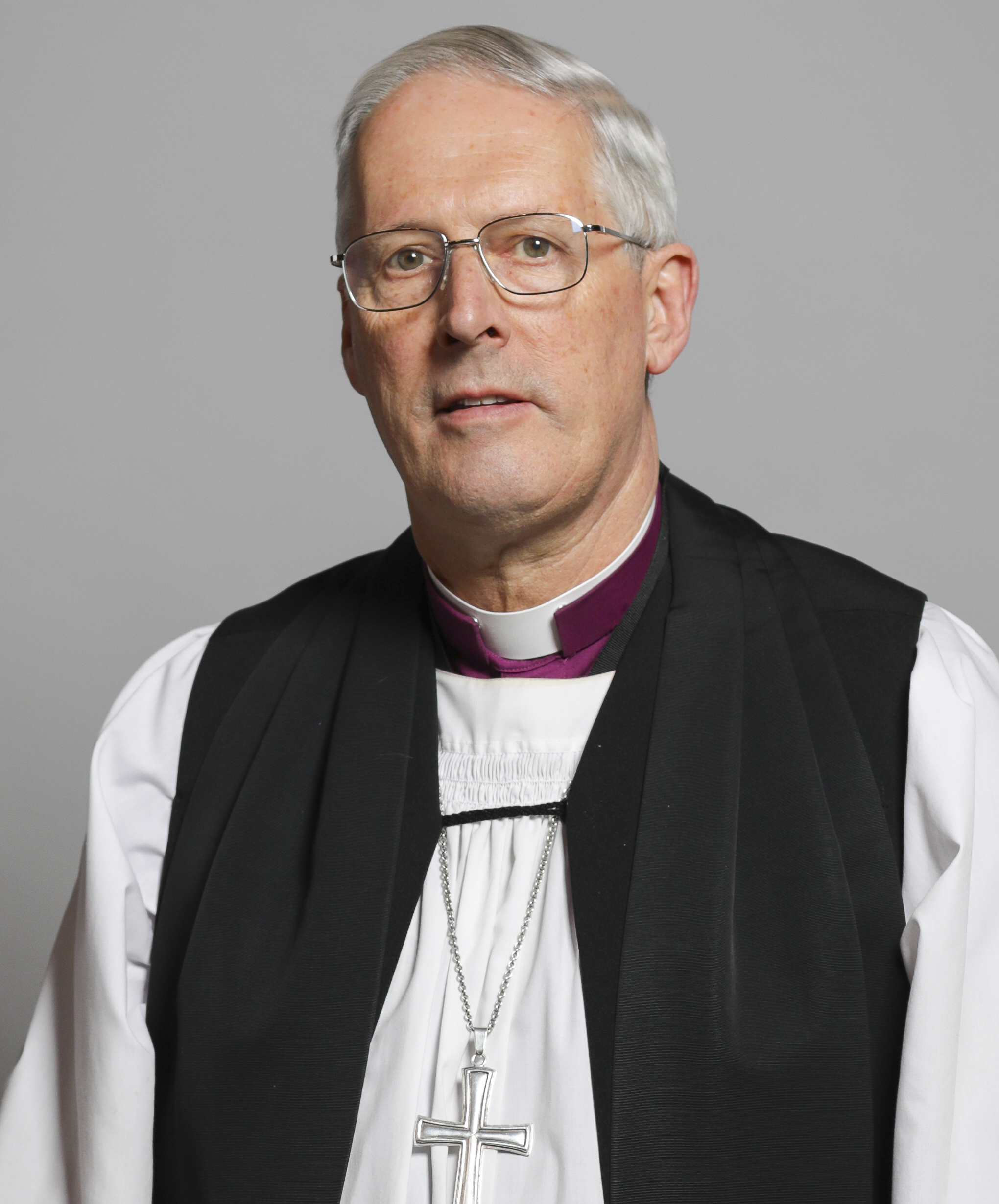 Official portrait of The Lord Bishop of Southwark Full sized portrait of The Lord Bishop of Southwark